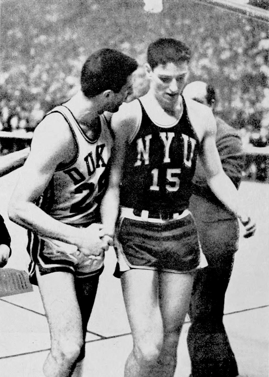 Art Heyman of Duke and Barry Kramer of NYU during the East regional semifinal of the 1963 NCAA University Division Basketball Tournament. This photo was scanned from the 1963 edition of Chanticleer, the yearbook of Duke University.